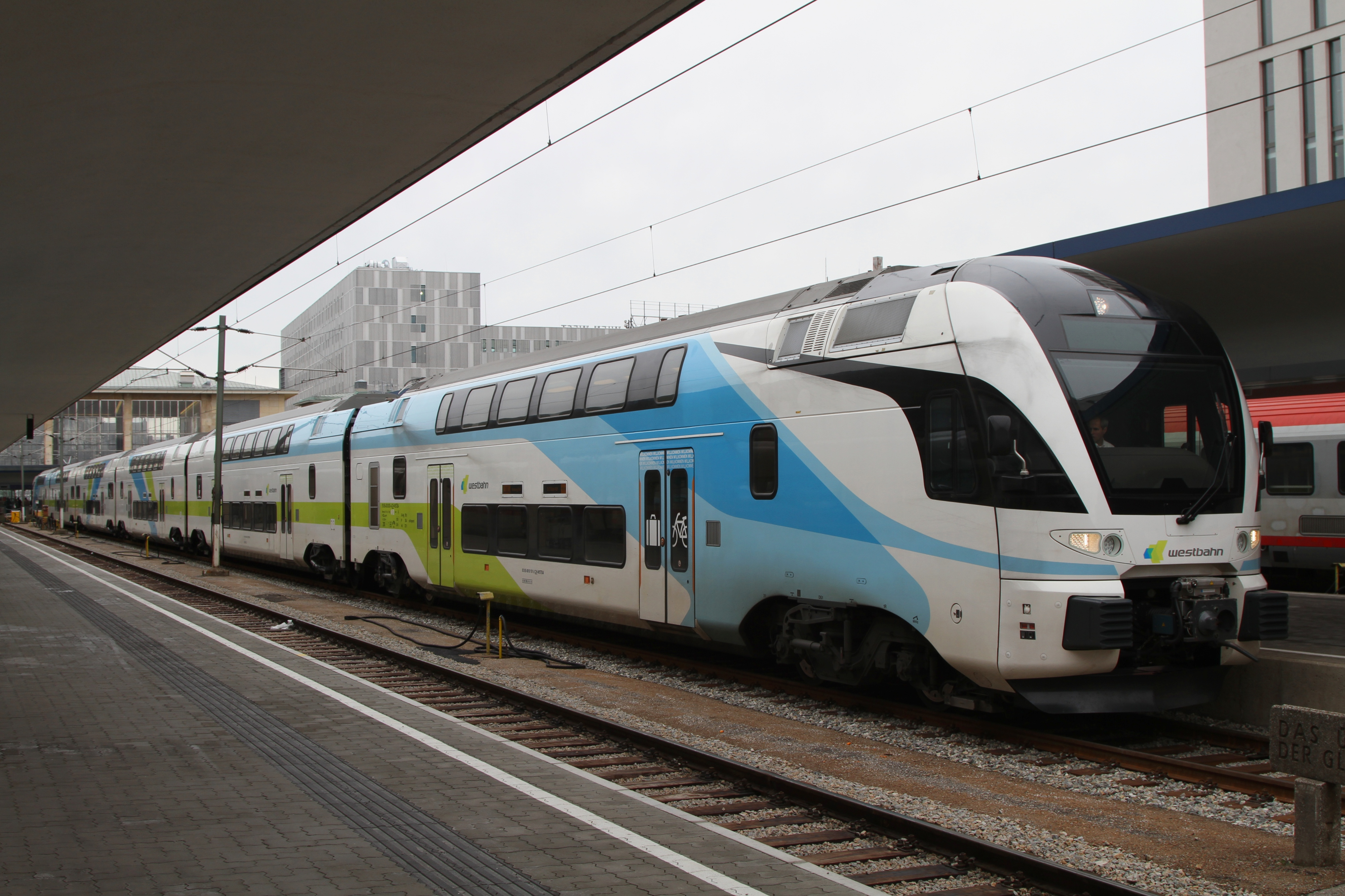 Westbahn GmbH's Stadler KISS 4010 001 at Wien Westbahnhof.